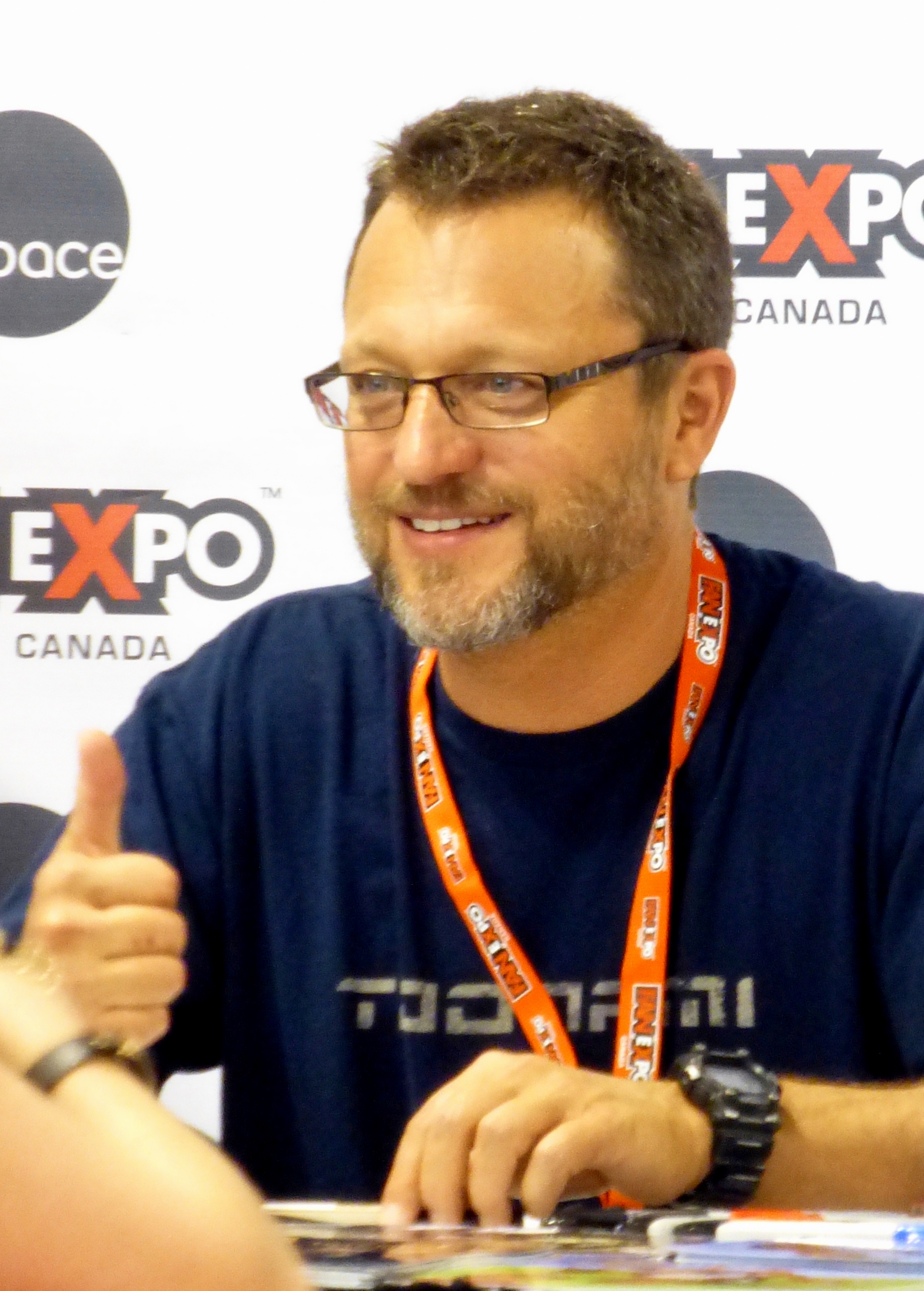 Thumbs up! Voice actor noted for Spike in Cowboy Bebop 2014 Fan Expo Canada